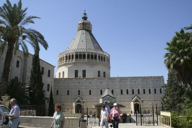 For more pictures and videos of Israel, please visit here. The Basilica of the Annunciation